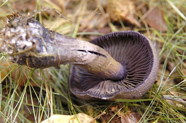 Cortinarius violaceus from Commanster, Belgium. If you think this is a different taxon, please contact James Lindsey.